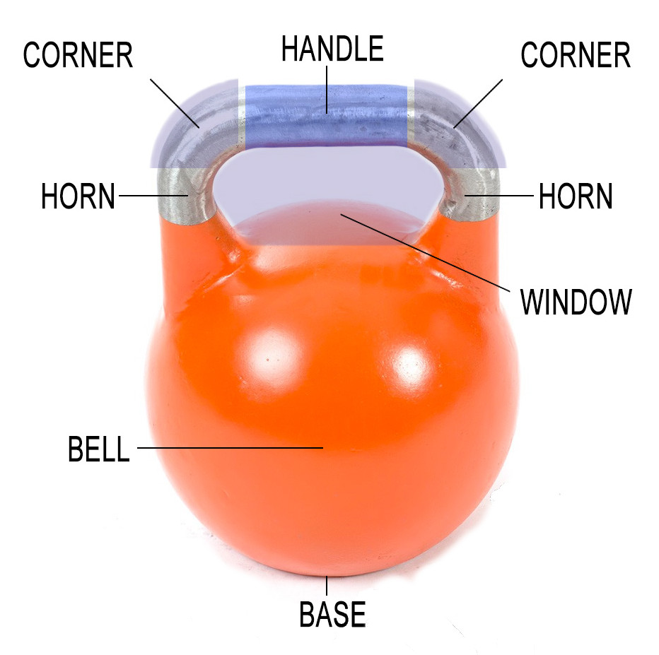 Illustrated is a competition kettlebell and it's anatomy. Handle, Corner(s), Horn(s), Window, Bell and Base.